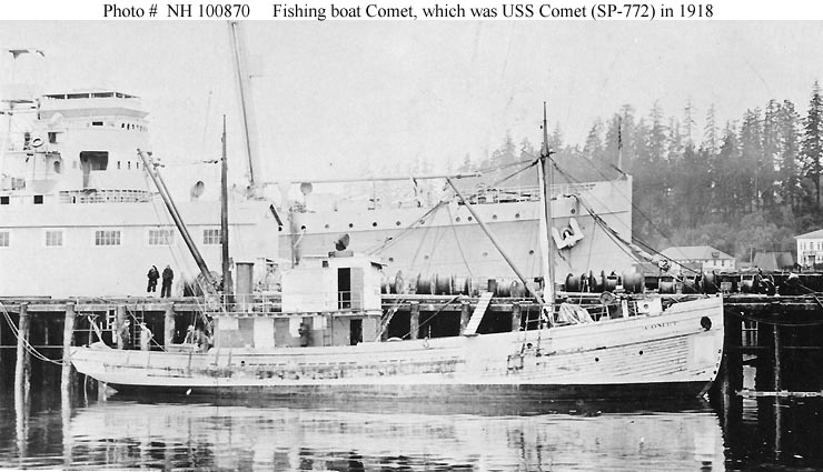 The commercial fishing trawler Comet sometime prior to her United States Navy service as the patrol vessel . She apparently is at the Puget Sound Navy Yard in Bremerton, Washington, probably around the time of her acquisition by the United States Navy.